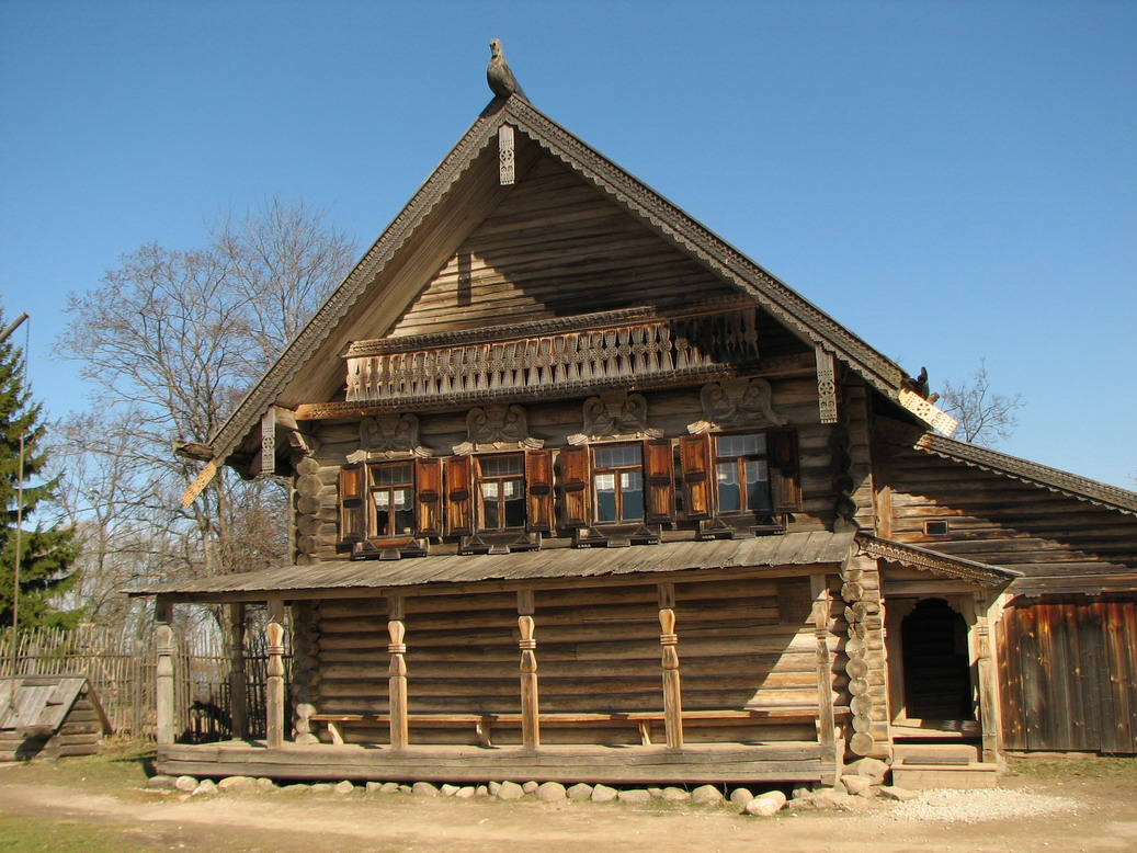 Wood buildings museum in Vitoslavlicy